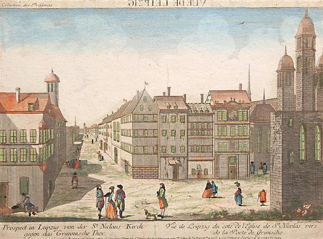 perspective view of Nikolaikirche Leipzig, Germany; Copperplate print, colorized, 28,5 × 40,5 cm